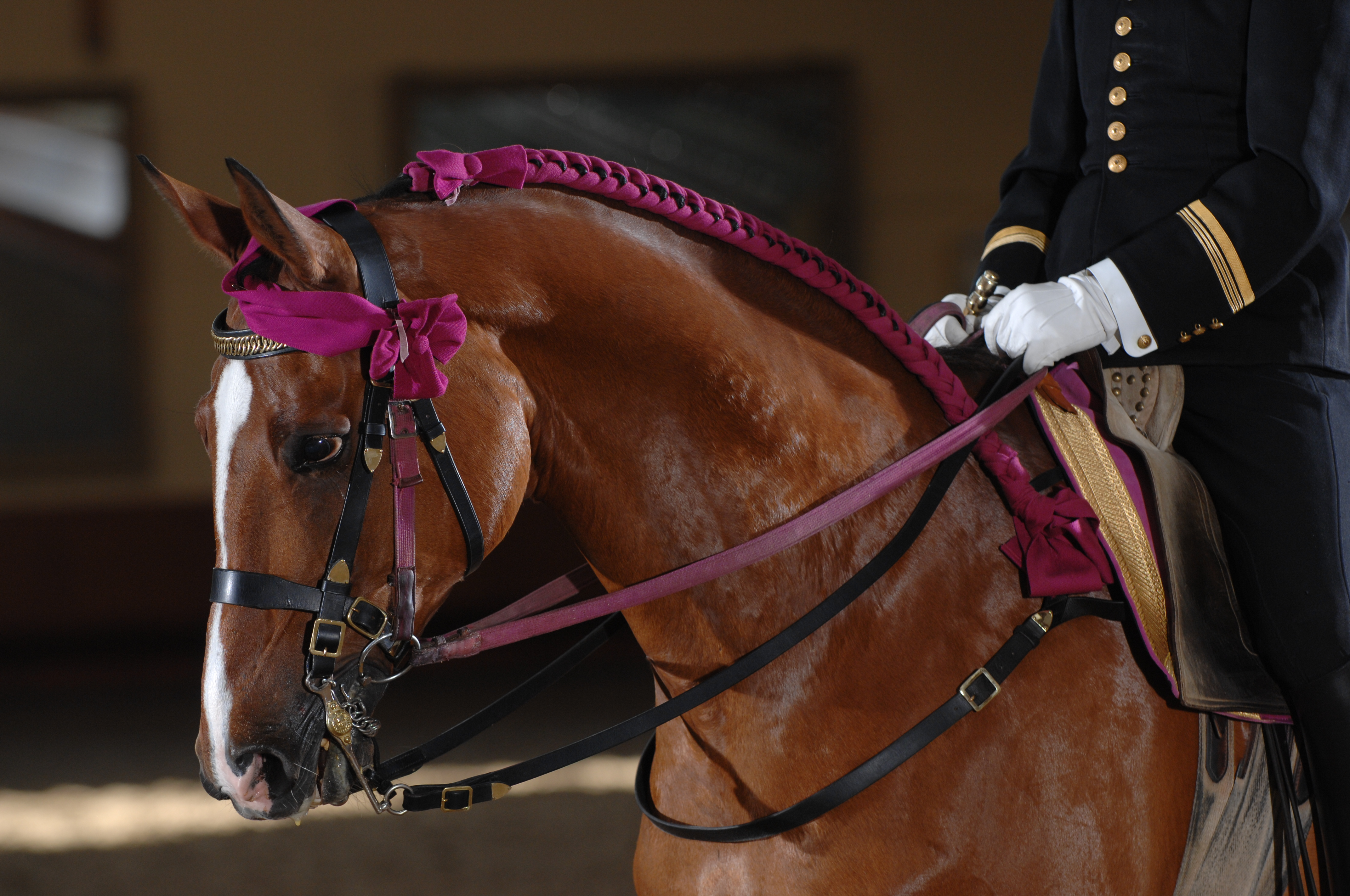 This photograph was taken by a Wikipedian, or provided by the Cadre noir, during a special day in May 2012 English | français | +/−